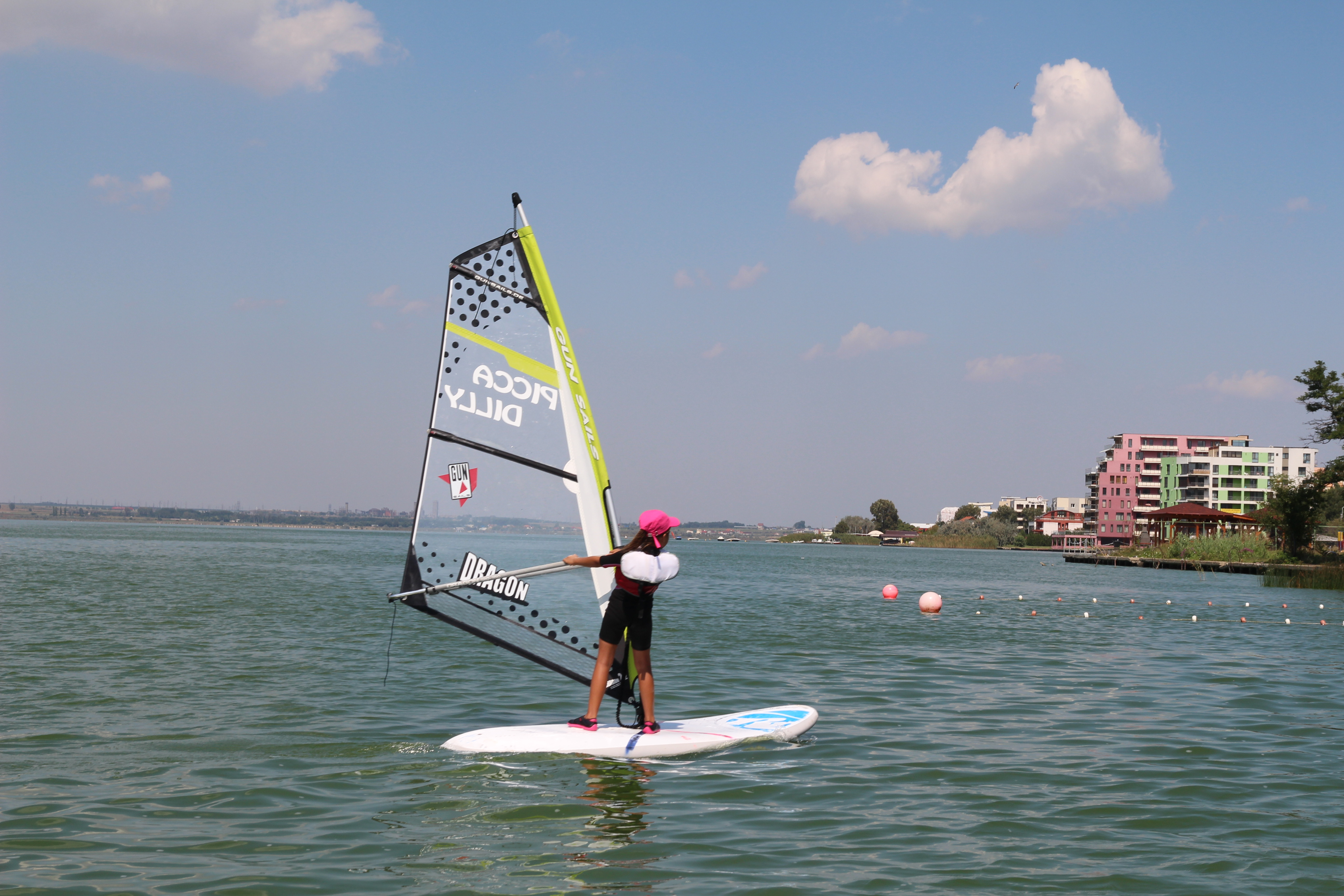 Windsurfing girl